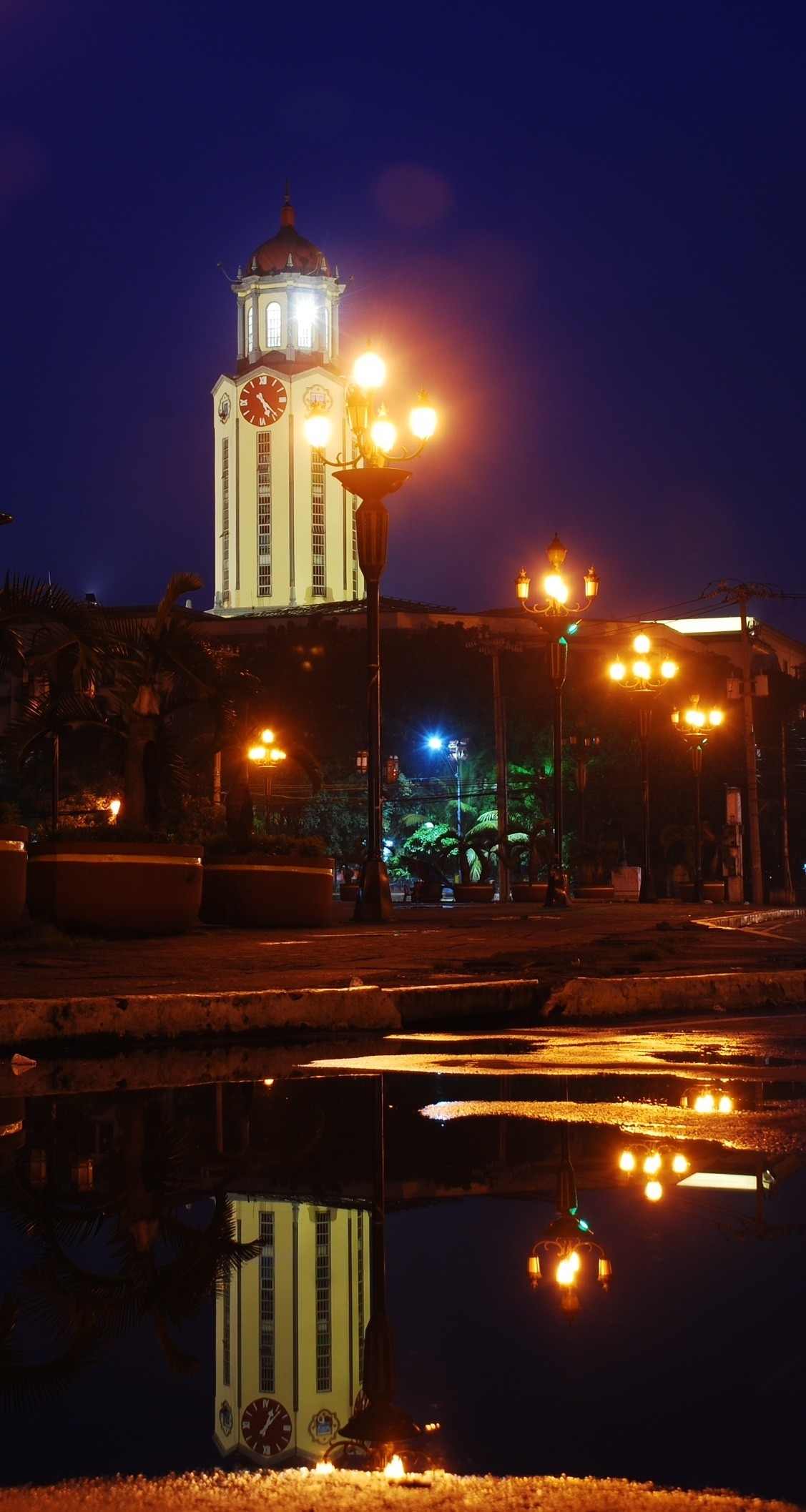 Clock tower of Manila city hall taken early morning